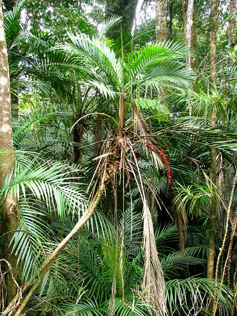 Laccospadix australasica with ripe fruit in February 2008. The Herberton Range lies west of Atherton, on the Atherton Tableland of north Queensland, Australia.